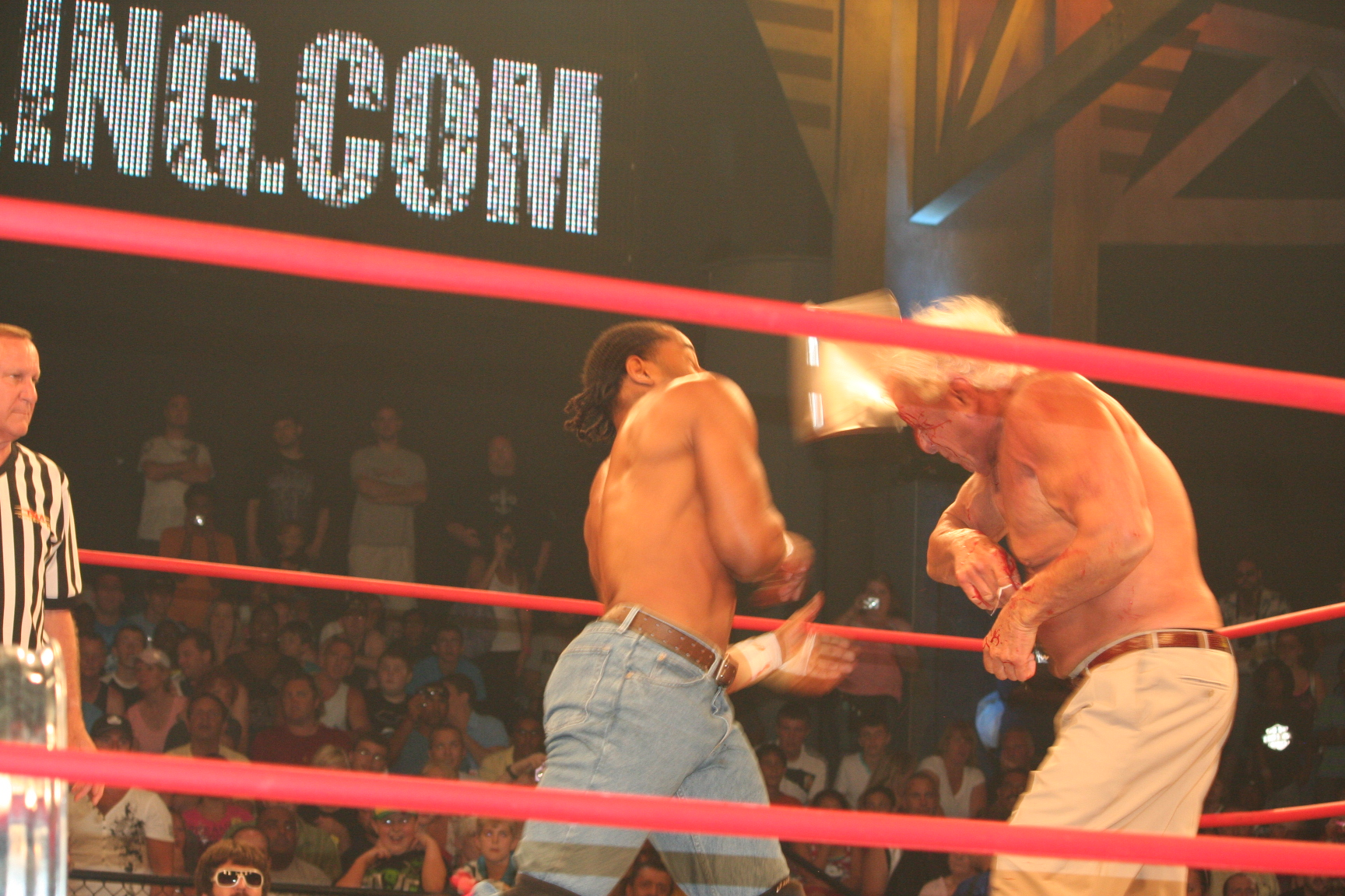 Professional wrestlers Jay Lethal and Ric Flair in the ring at a TNA Impact! taping